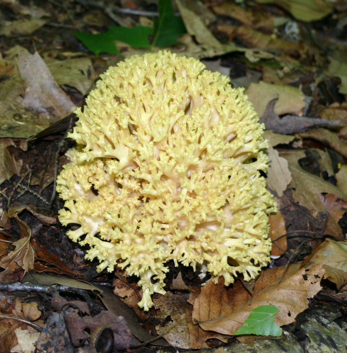 A Crown-tipped Coral mushroom (Artomyces pyxidatus) in the White Mountains, NH.